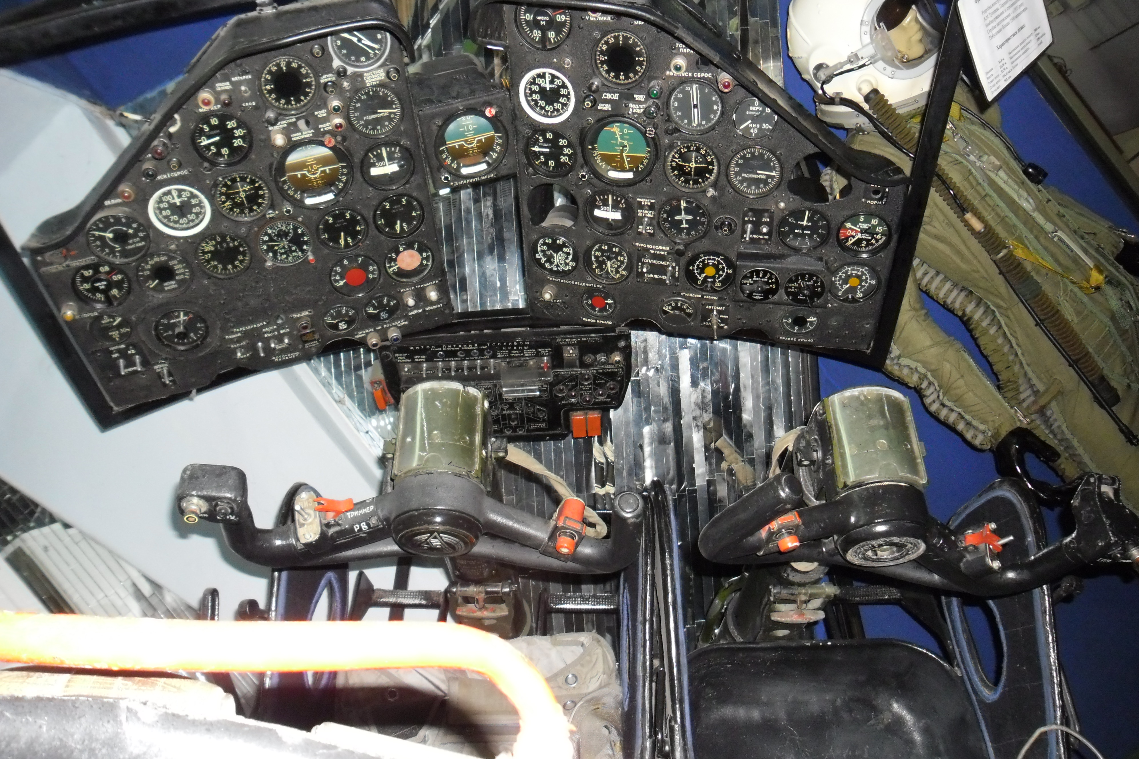 Fragment of the cockpit TU-16